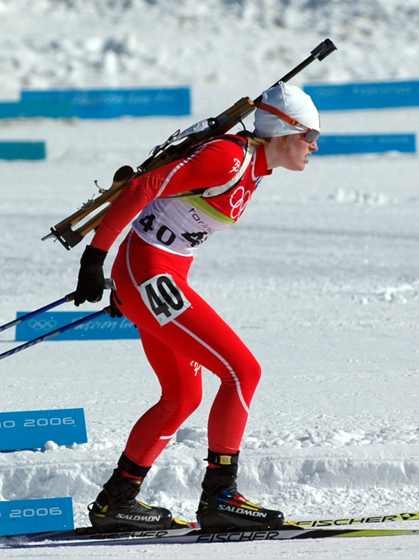 Tora Berger at the 2006 Winter Olympics in Torino.